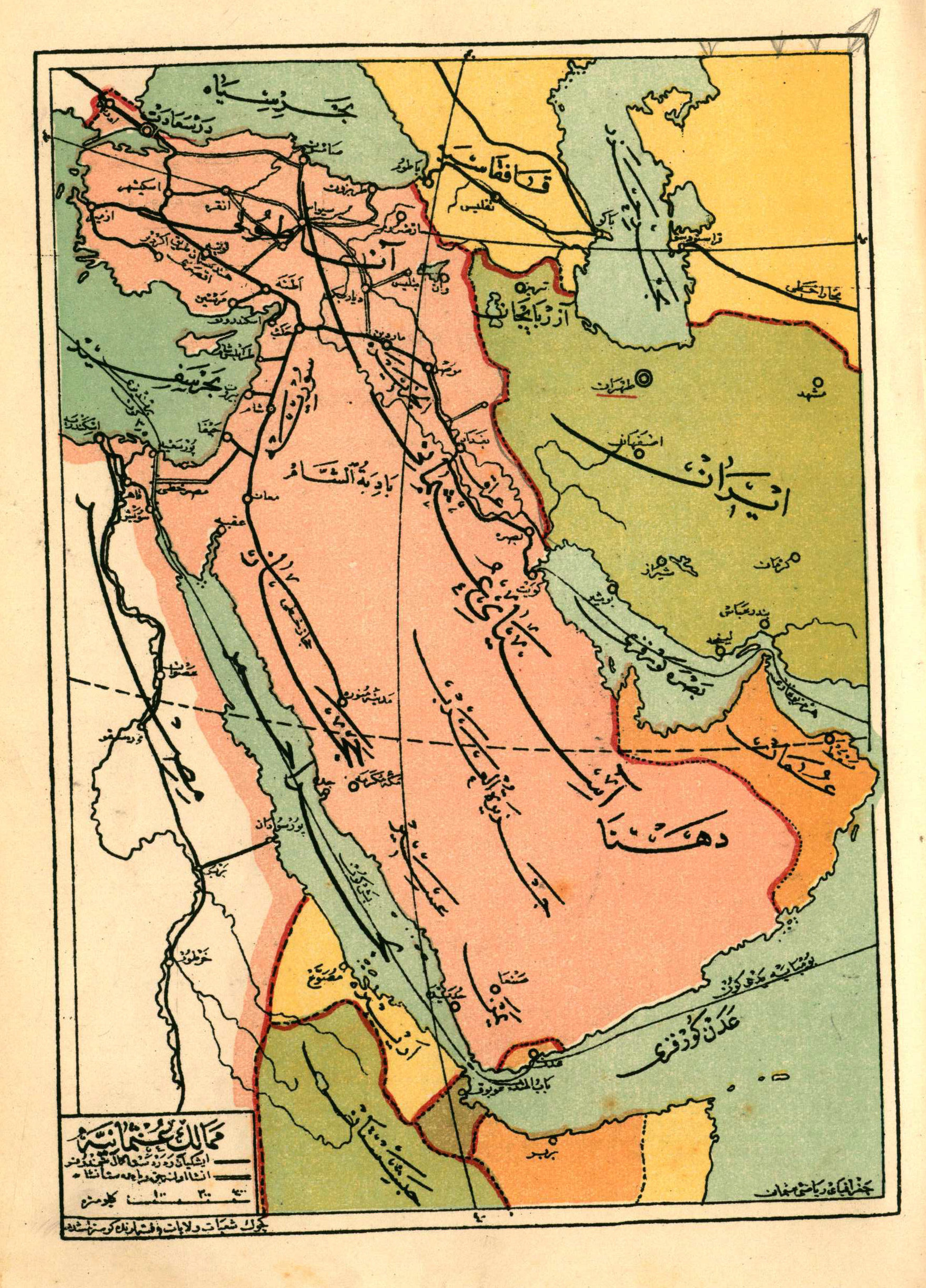 Ottoman Empire in the Middle East from Jughrafiya-i Osmani (1332 A.H. - 1914)